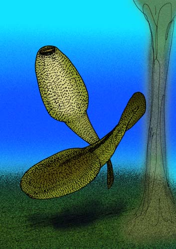 My reconstruction of the early Devonian heterostracan, Lepidaspis serrata, of Canada.